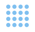 4 by 4 dot grid